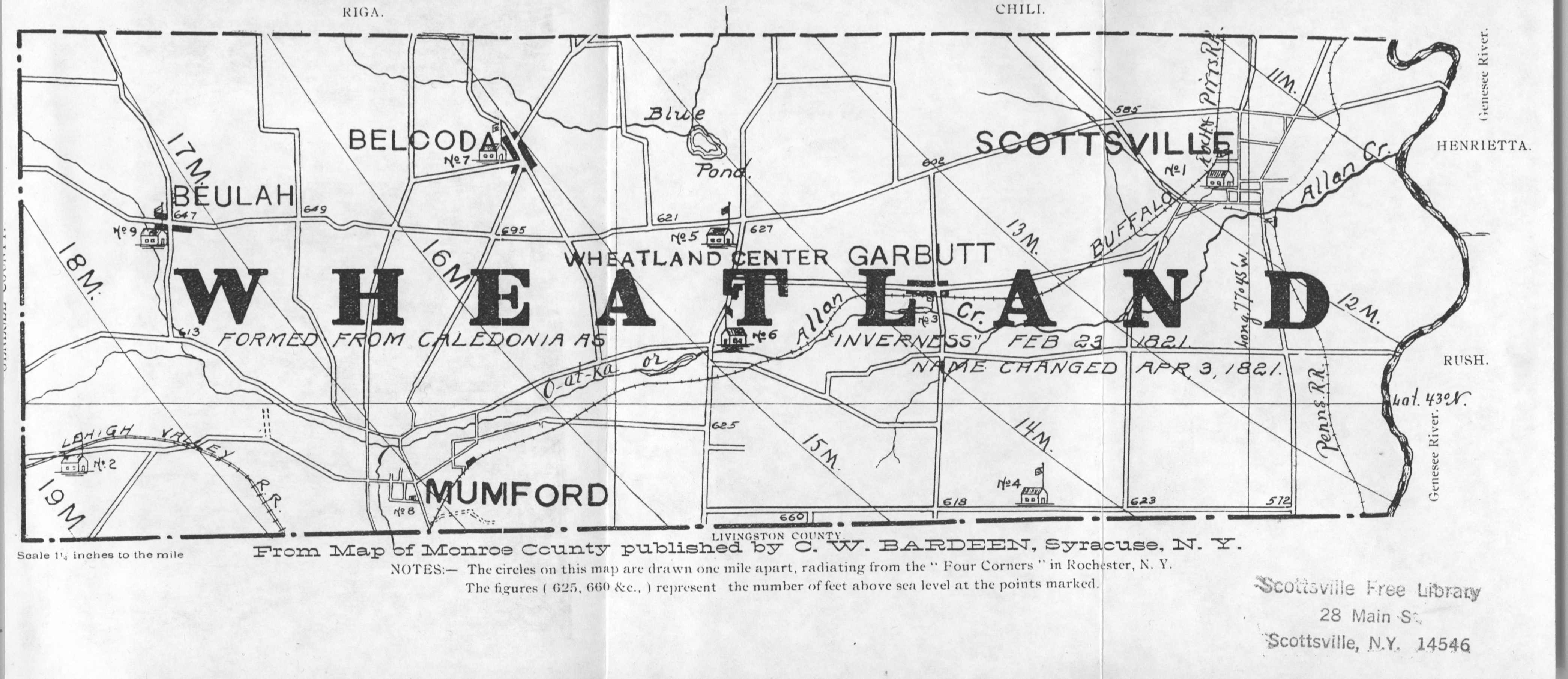 segment of a map of Monroe County